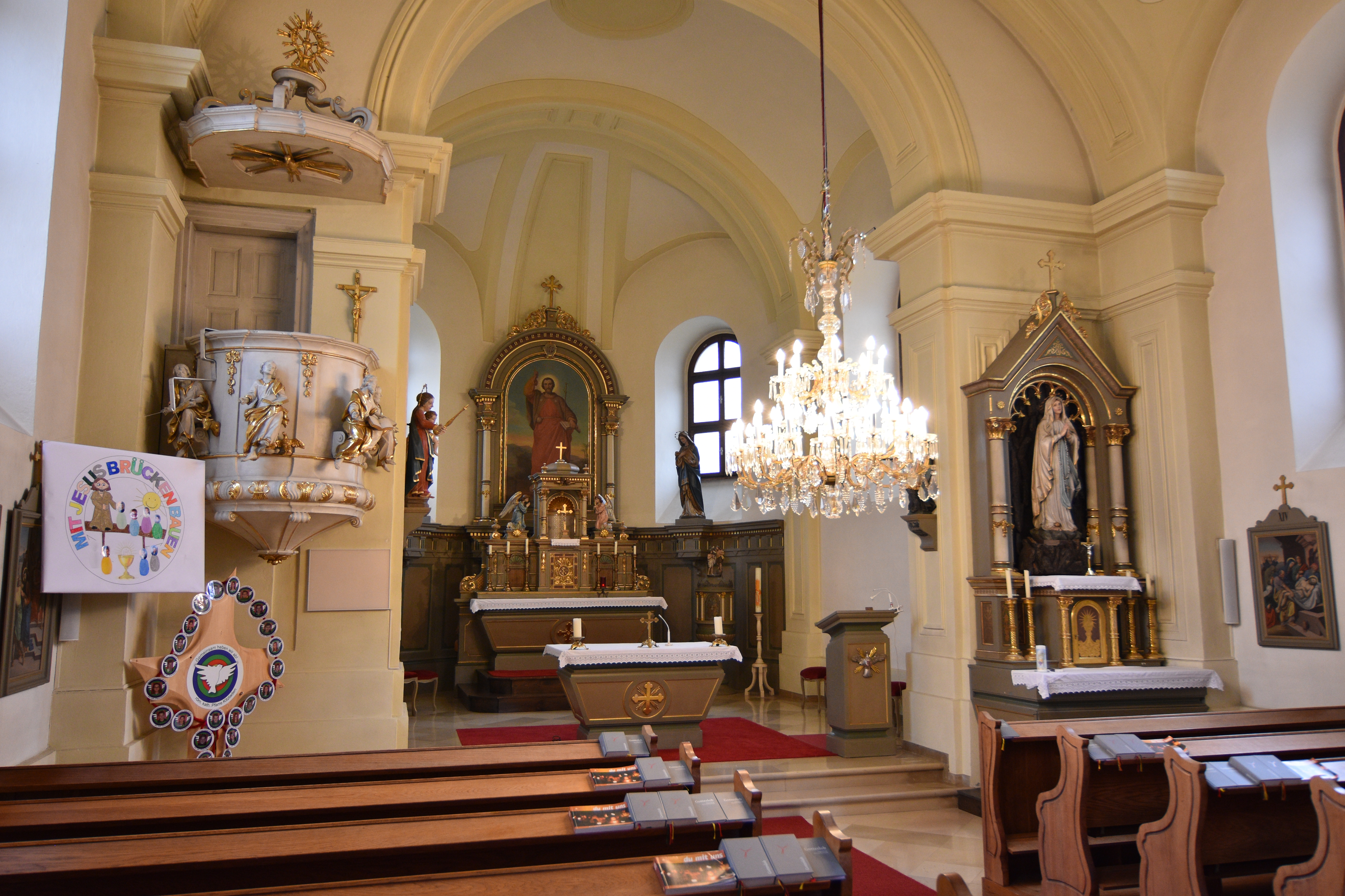 Saint James the Greater Church (Kitzladen) - Interior